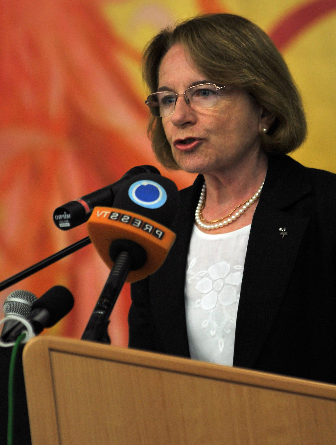 Ana María Cetto at IAEA Commemorative Ceremony on the Destruction of Hiroshima and Nagasaki, held at the Vienna International Centre. Vienna, Austria, 9 August 2010.